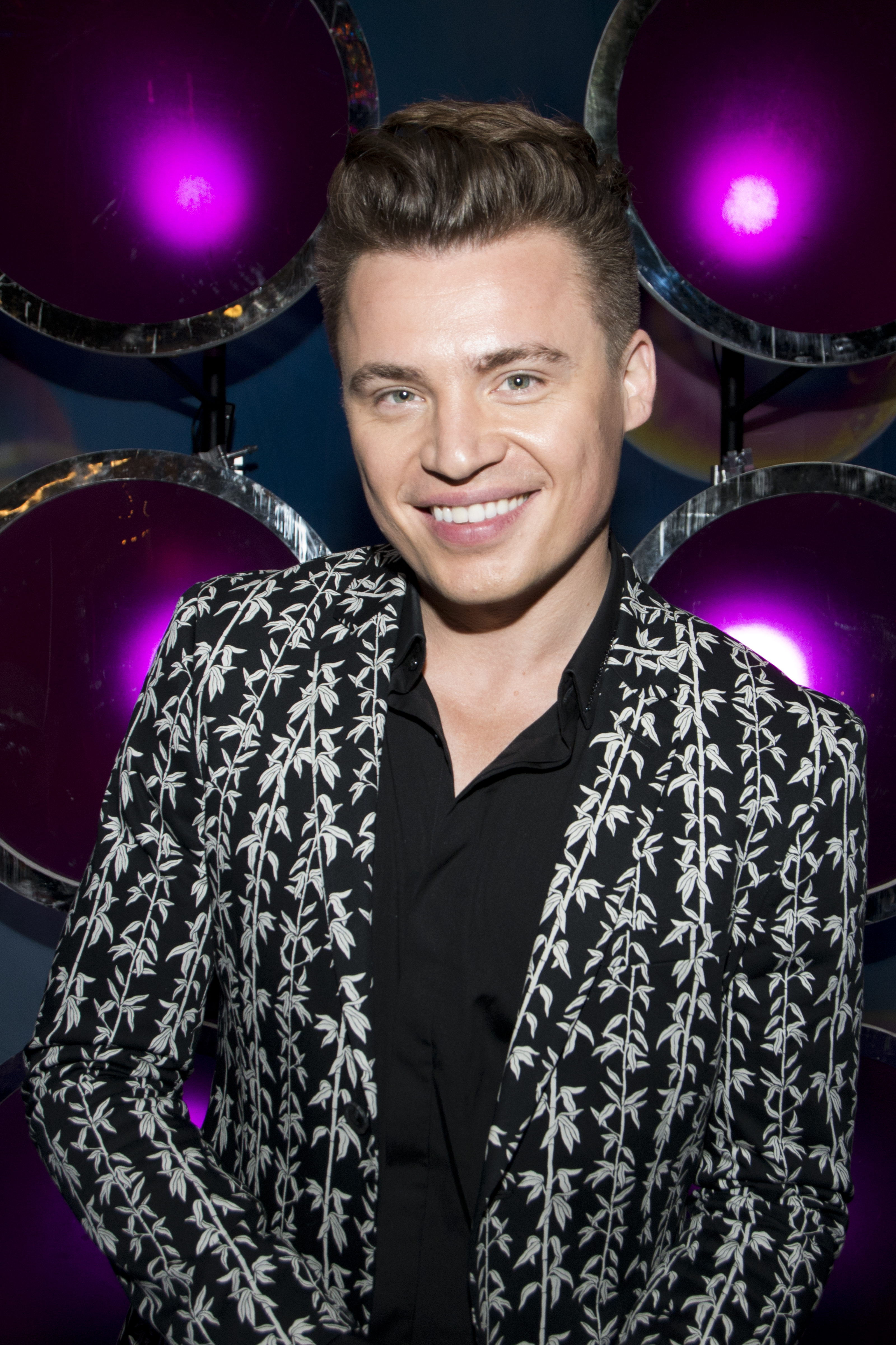 Shawn Hookat at Sommarkrysset, Gröna Lund in Stockholm (Sweden)